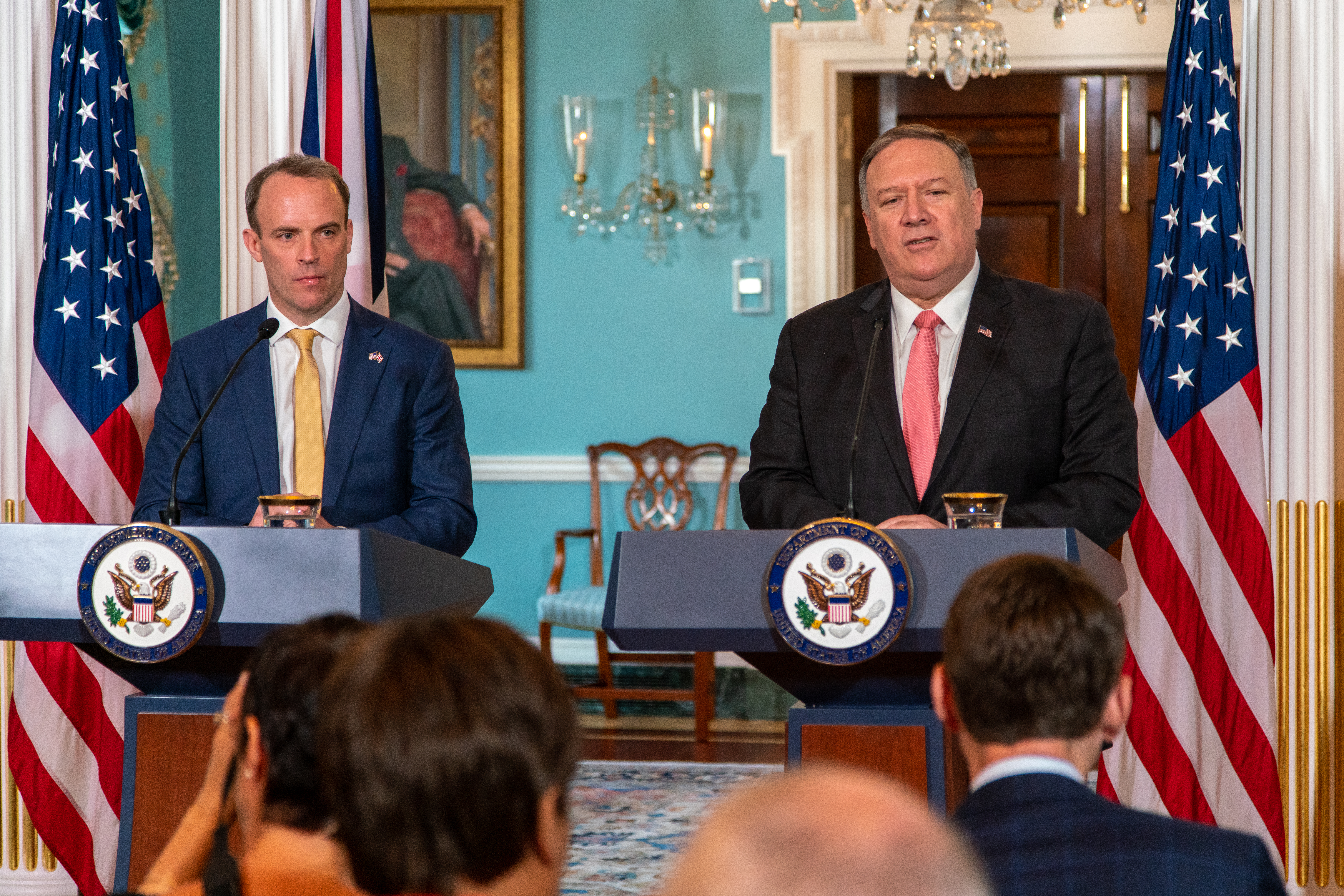 U.S. Secretary of State Michael R. Pompeo participates in a joint press availability with United Kingdom Foreign Secretary Dominic Raab, at the U.S. Department of State in Washington, D.C., on August 7, 2019. [State Department photo by Ron Przysucha/ Public Domain]